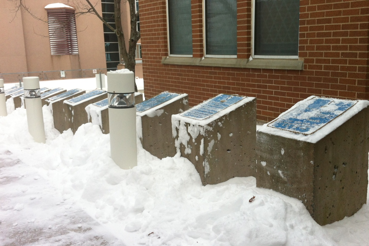 Faith Centre Plaques, CFB Halifax 2